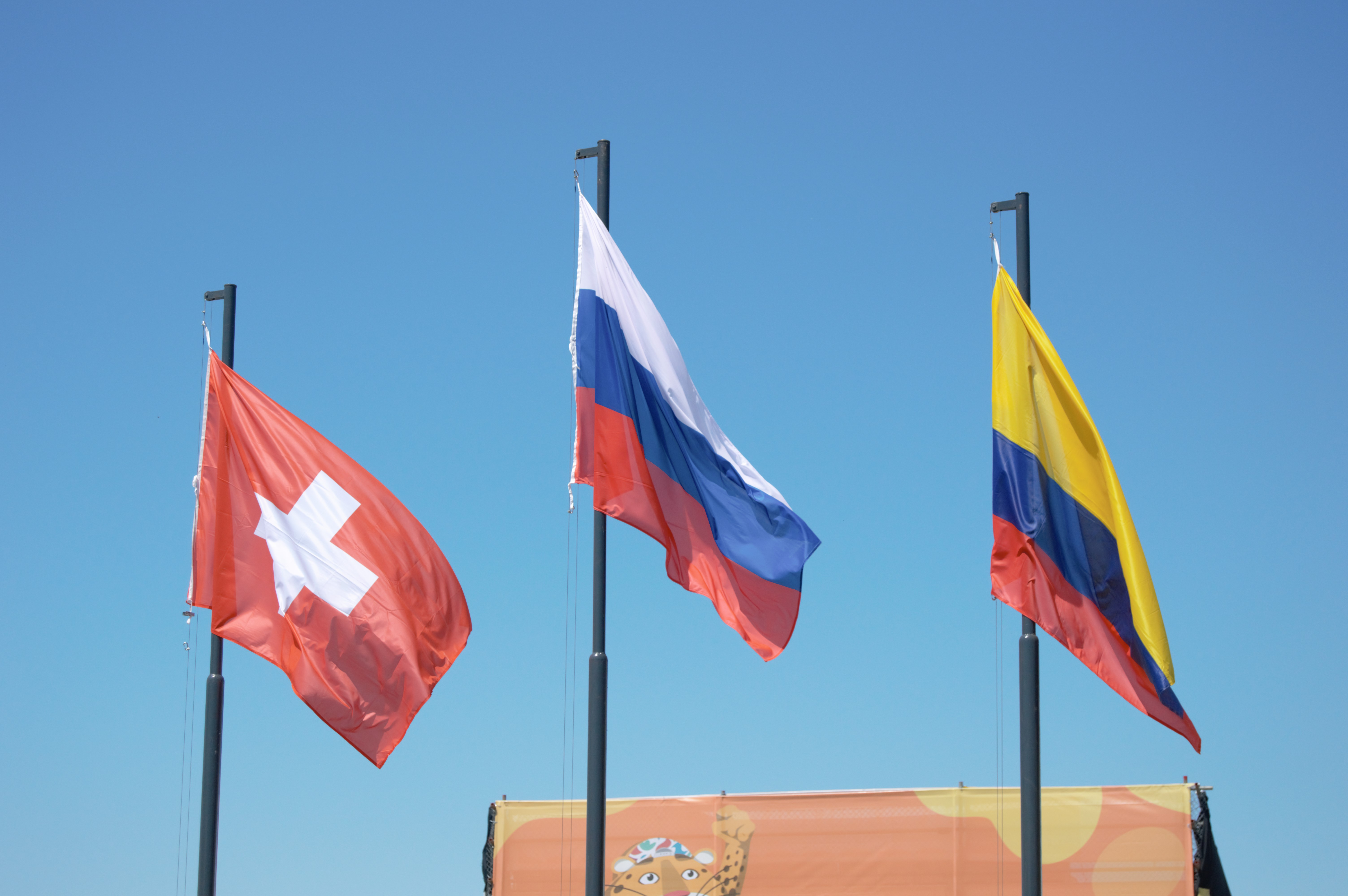 Victory ceremony of the BMX Racing tournament of the 2018 Summer Youth Olympics.